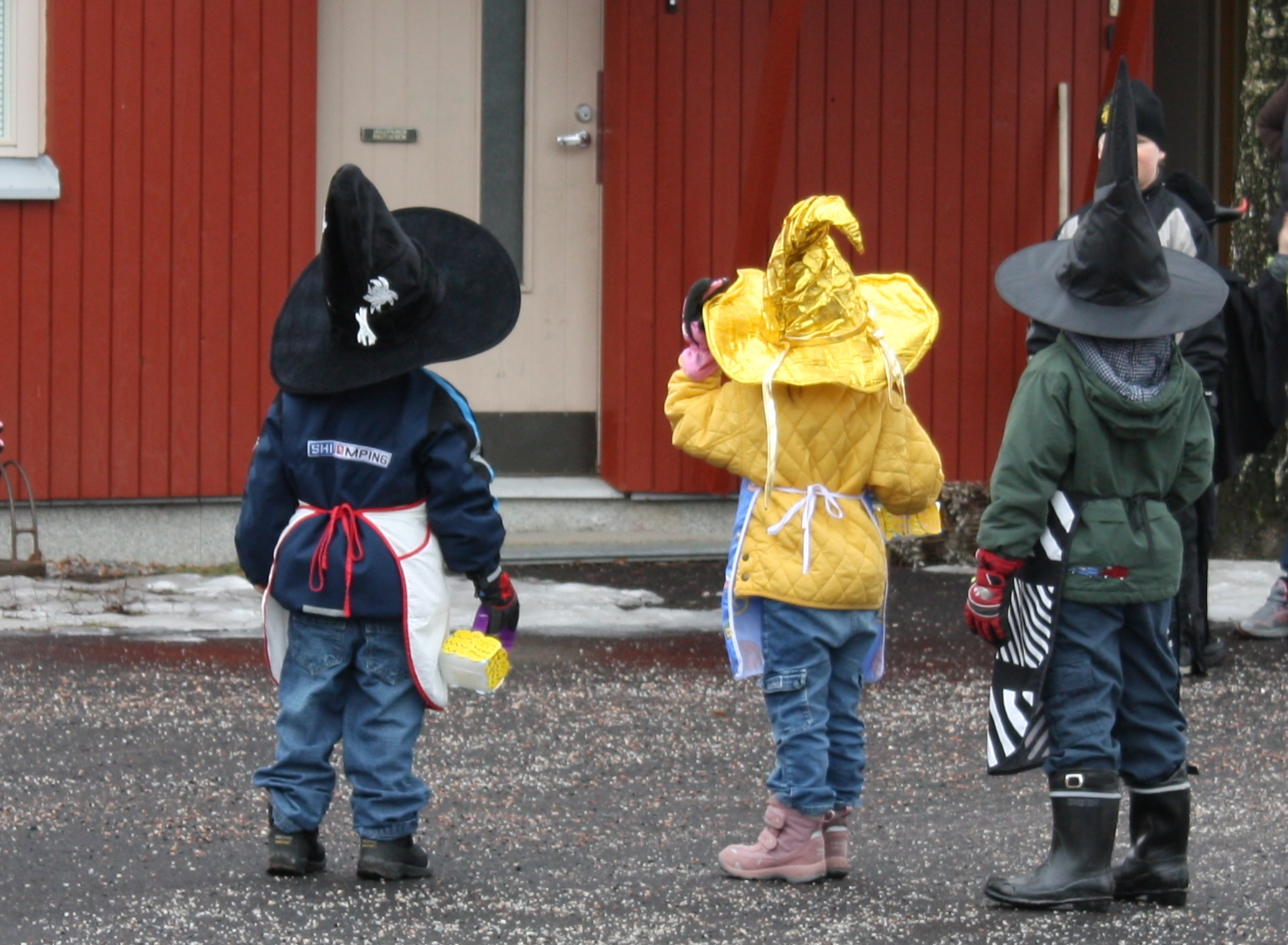 Boys can be Easter witches too. Kerava, Finland 2009